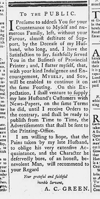 April 16, 1767 Maryland Gazette: announcement by Anne Green